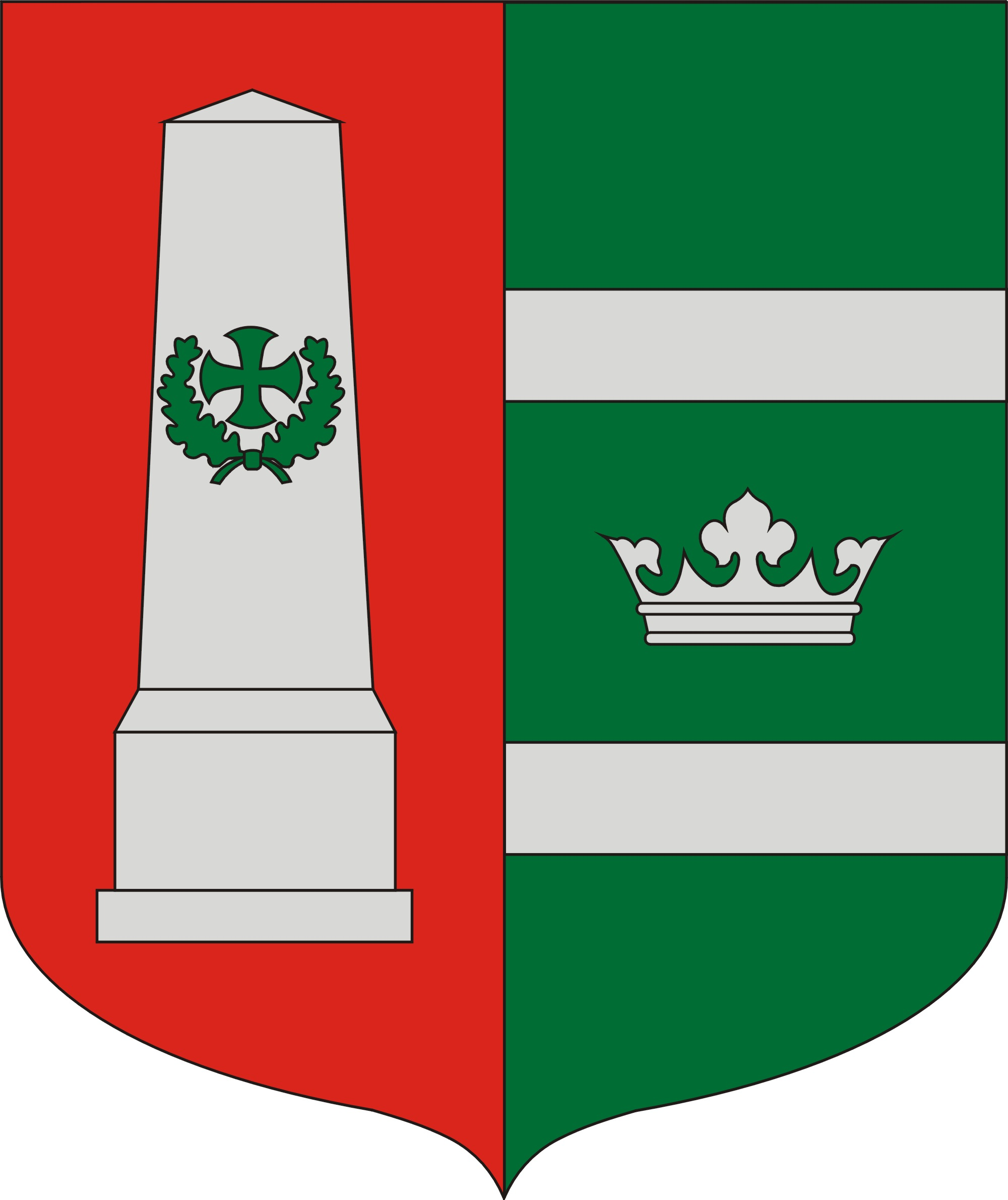 Coat of arms of Somodor, Hungary